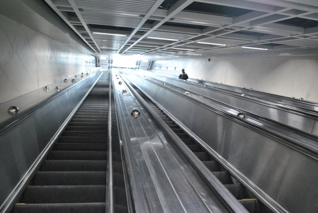 Xunlimen Station